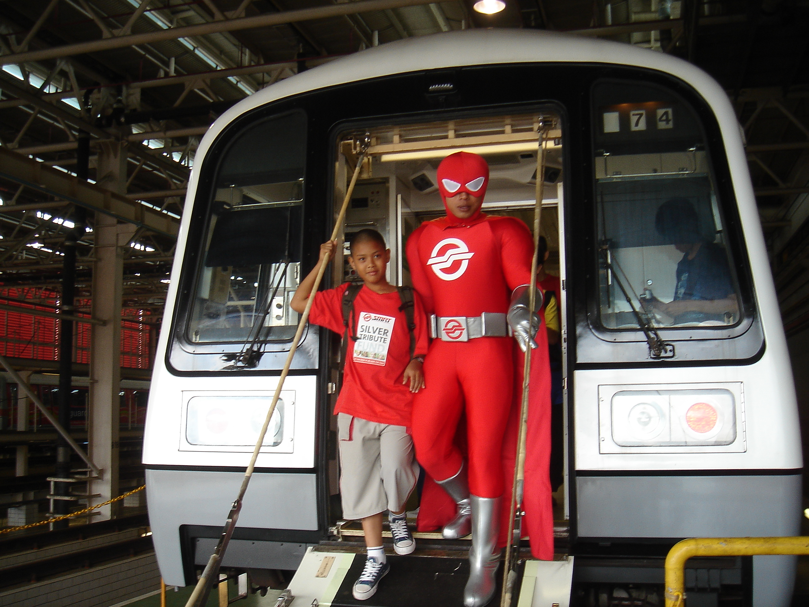 Mascot Captain SMRT posing on a refurbished C151, with emergency detainment ramp deployed.